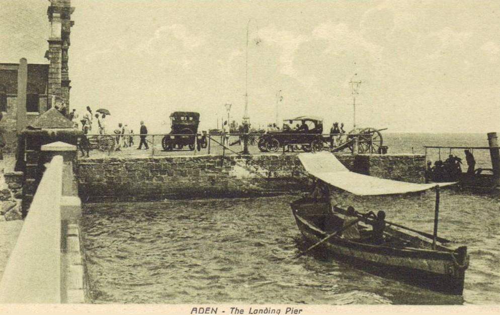 Landing pier at Steamer Point, Aden, 1920s. Postcard.